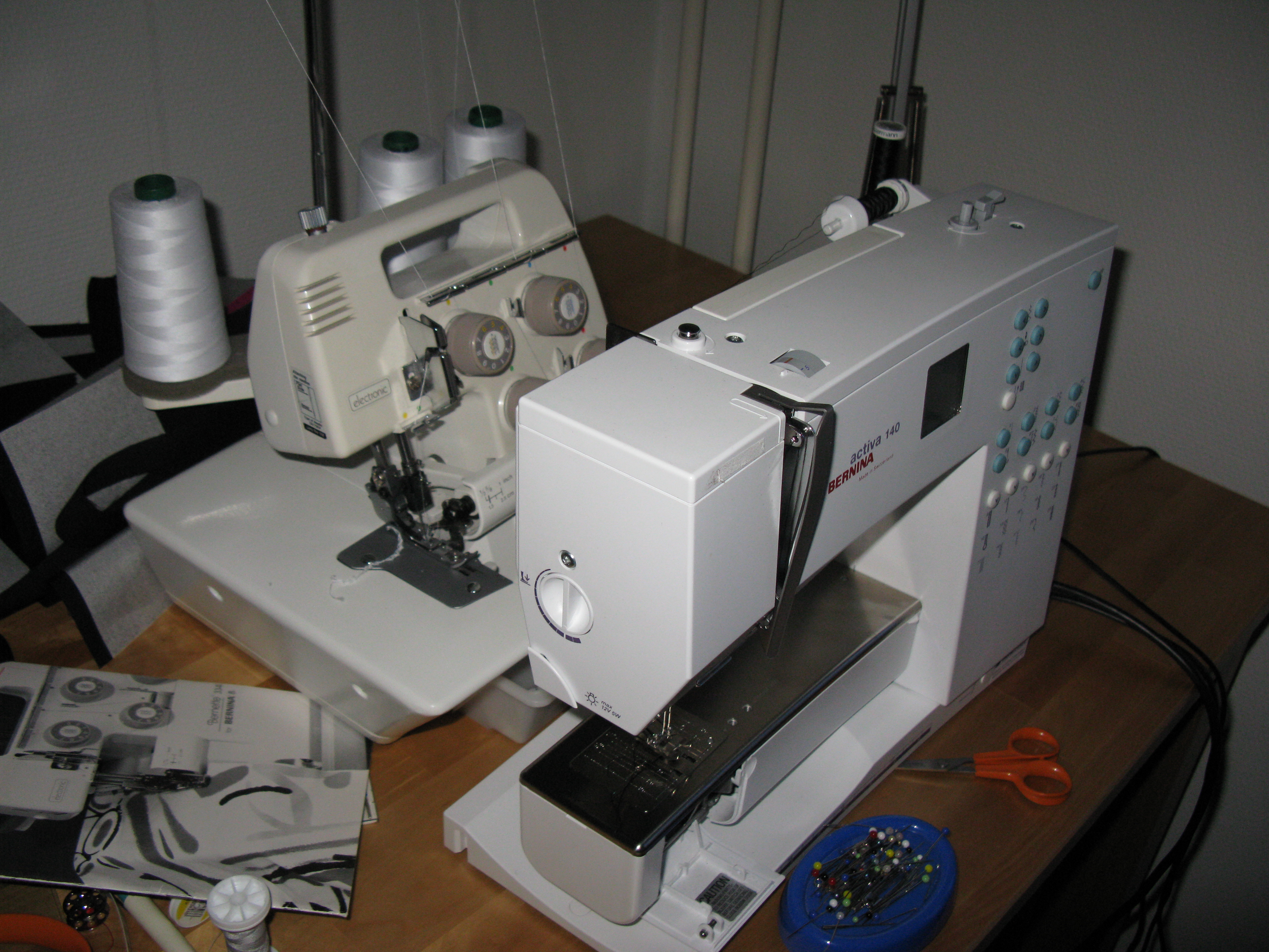 Two sewing machines on a sewing table.